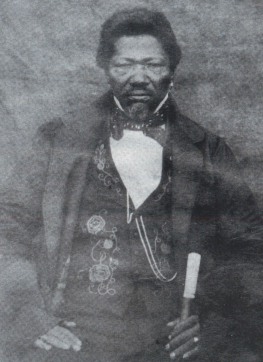 Griqua Kaptein Adam Kok III.